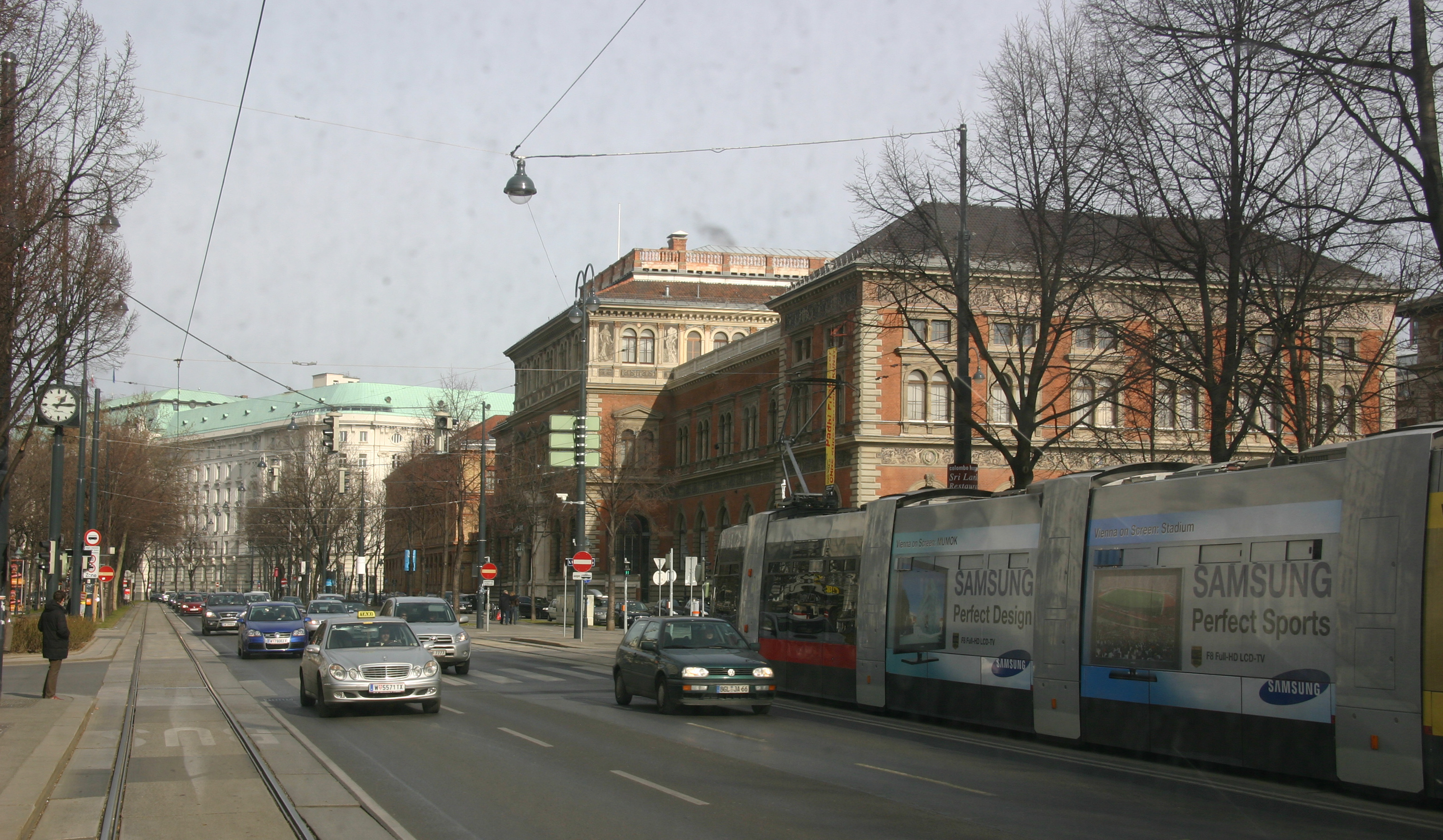 Stubenring, Vienna